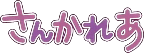 Sankarea's logo